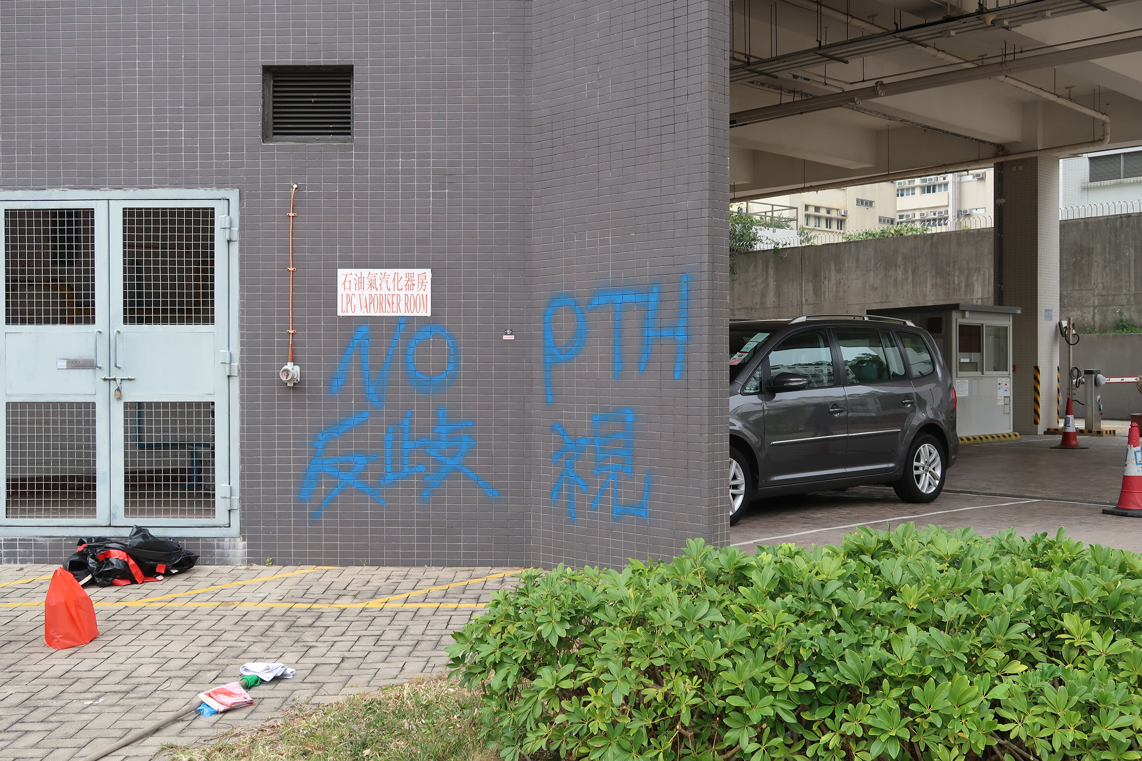 Graffti in Communication and Visual Arts Building